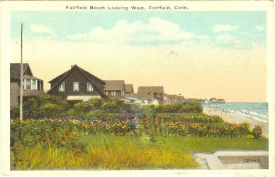 Postcards of Fairfield Beach, Connecticut from c1921